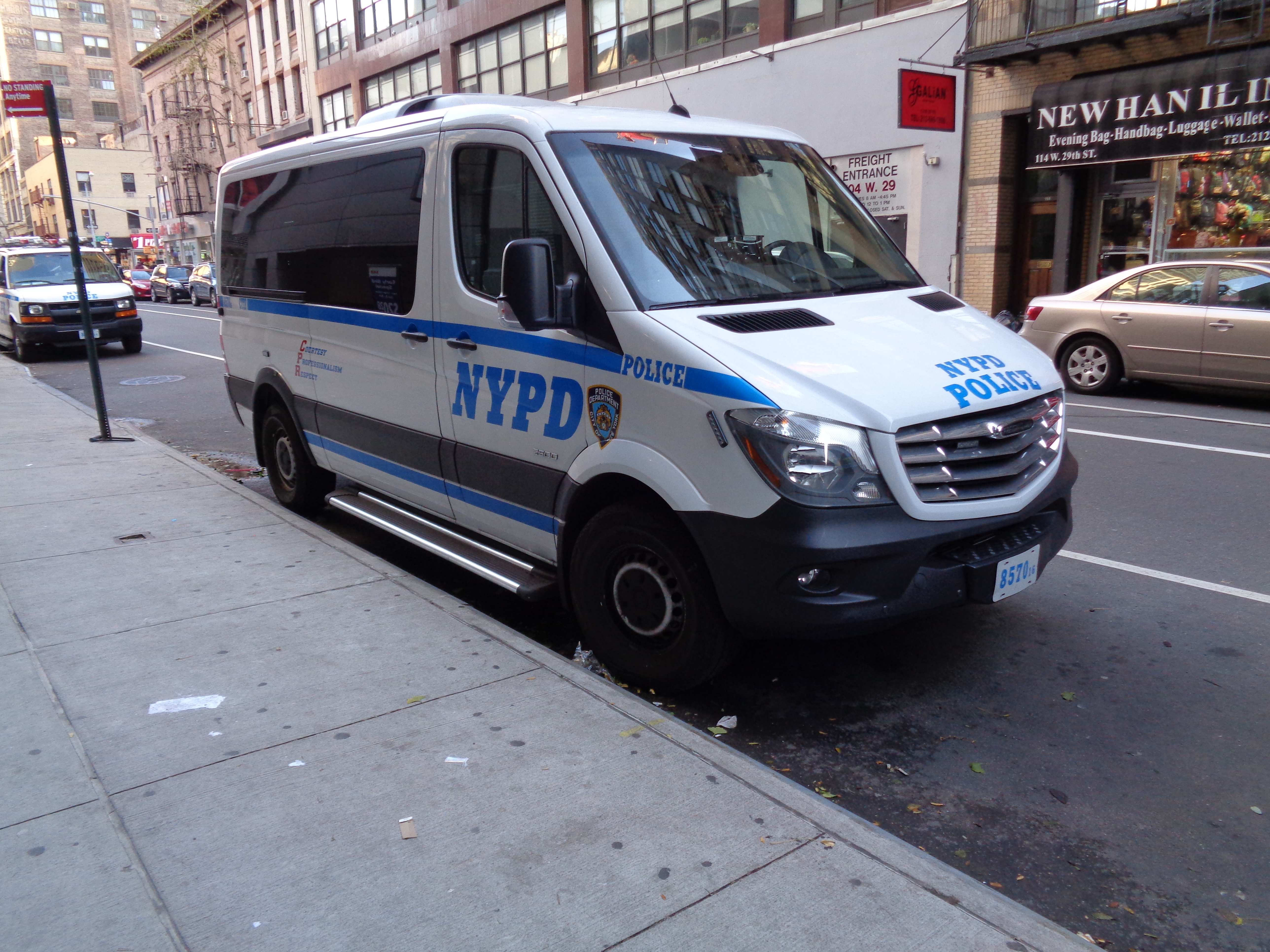 A NYPD Freightliner Sprinter in front of the Kimpton Hotel Eventi (835 / 851 Sixth Avenue), at 29th Street west of Sixth Avenue in NoMad, Manhattan.